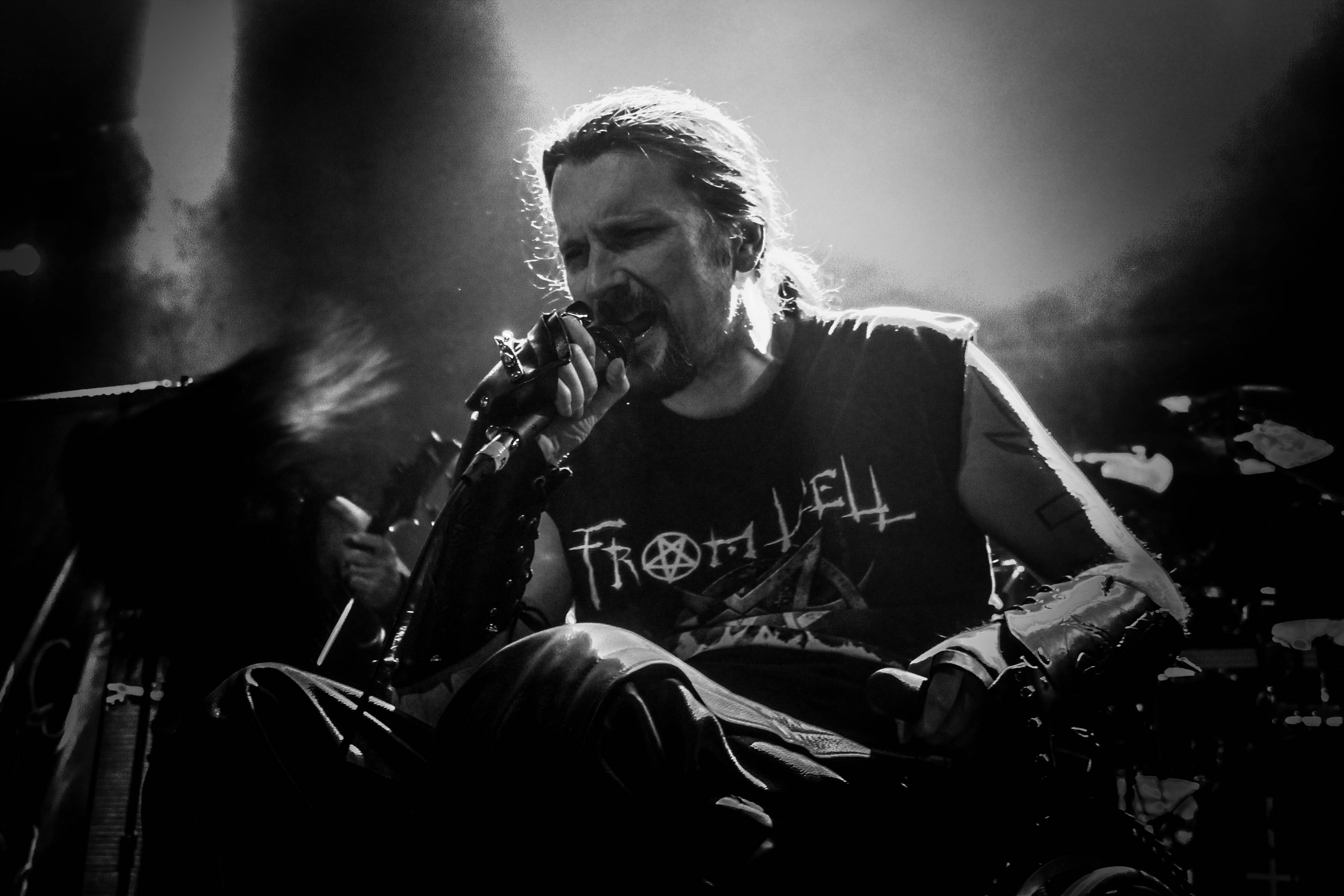 Possessed live in London December 2016